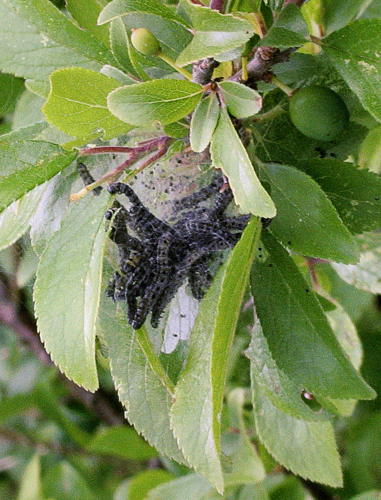 Hyponomeuta caterpillars on Prunus spinosa (Hyponomeuta rupsen op sleedoorn)